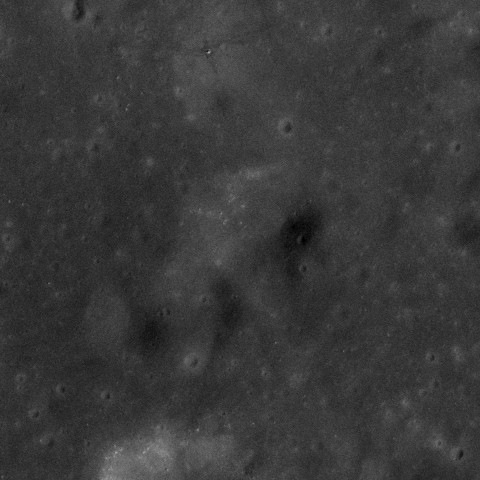 Trident crater, Taurus–Littrow valley, on the moon. Sun elevation 46 deg., spacecraft altitude 112 km. Note that the Apollo 17 lunar module is visible in this image as a bright pixel near the top center.